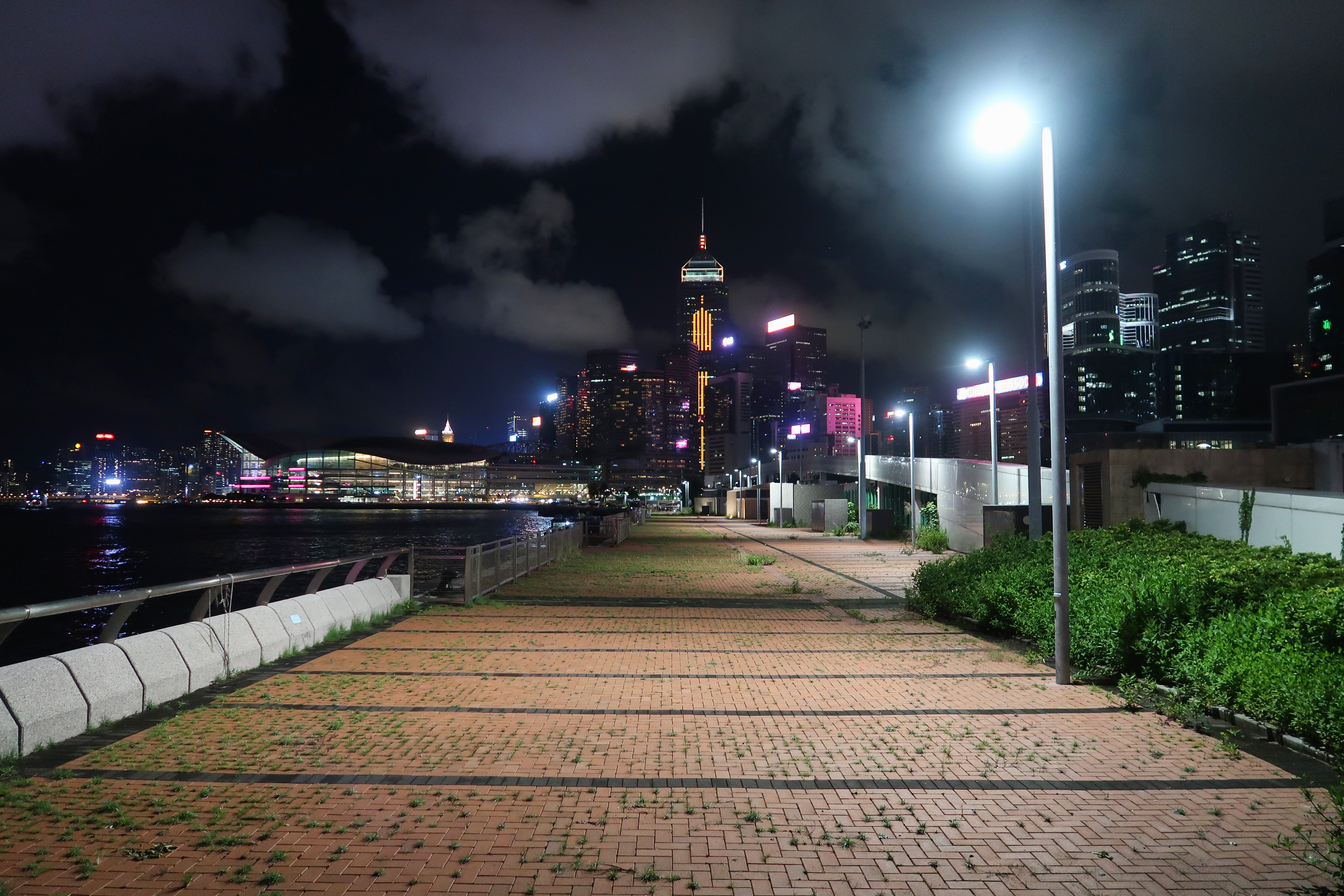 Central Military Dock